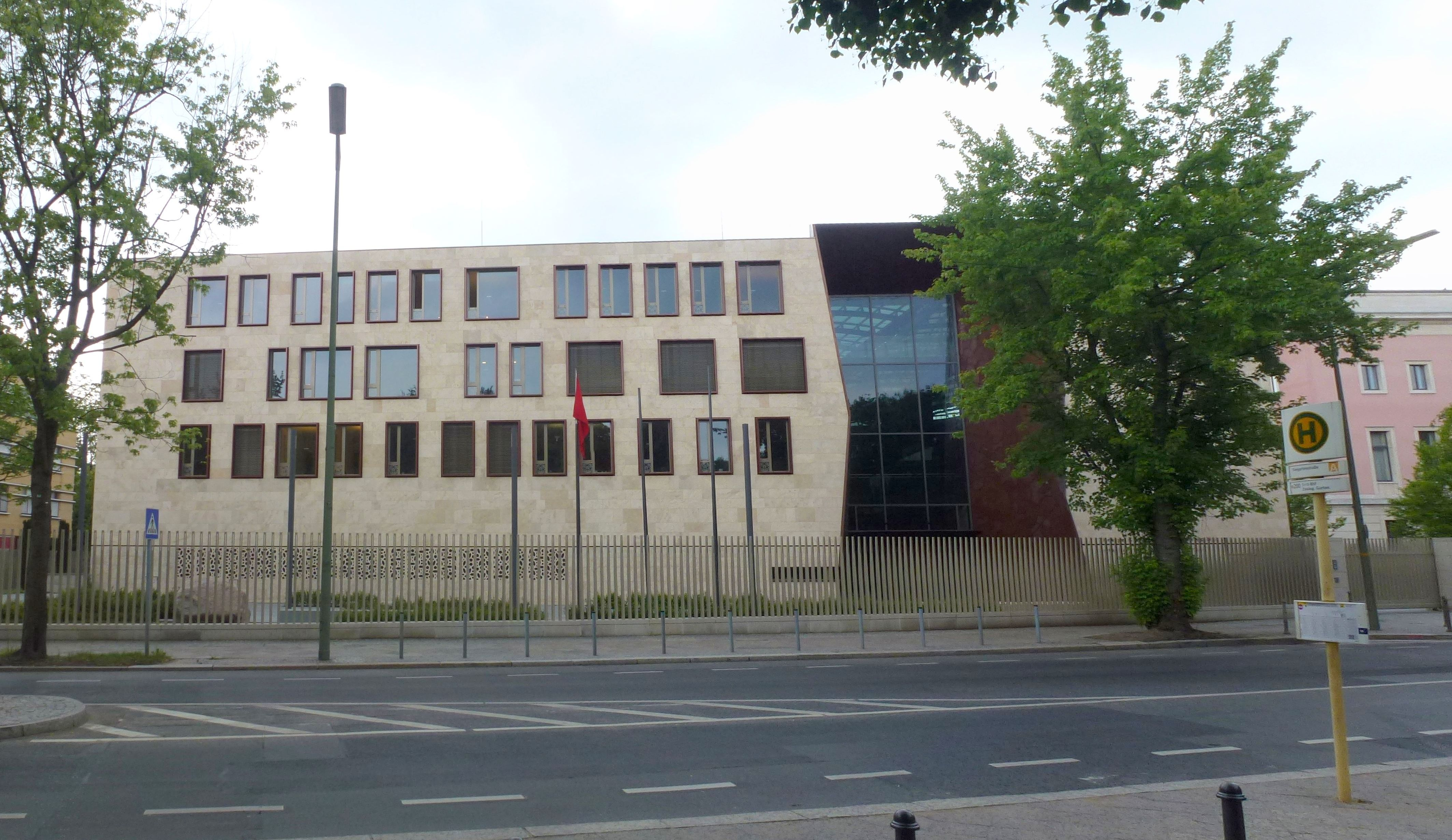 Berlin-Tiergarten Tiergartenstraße Türkische Botschaft